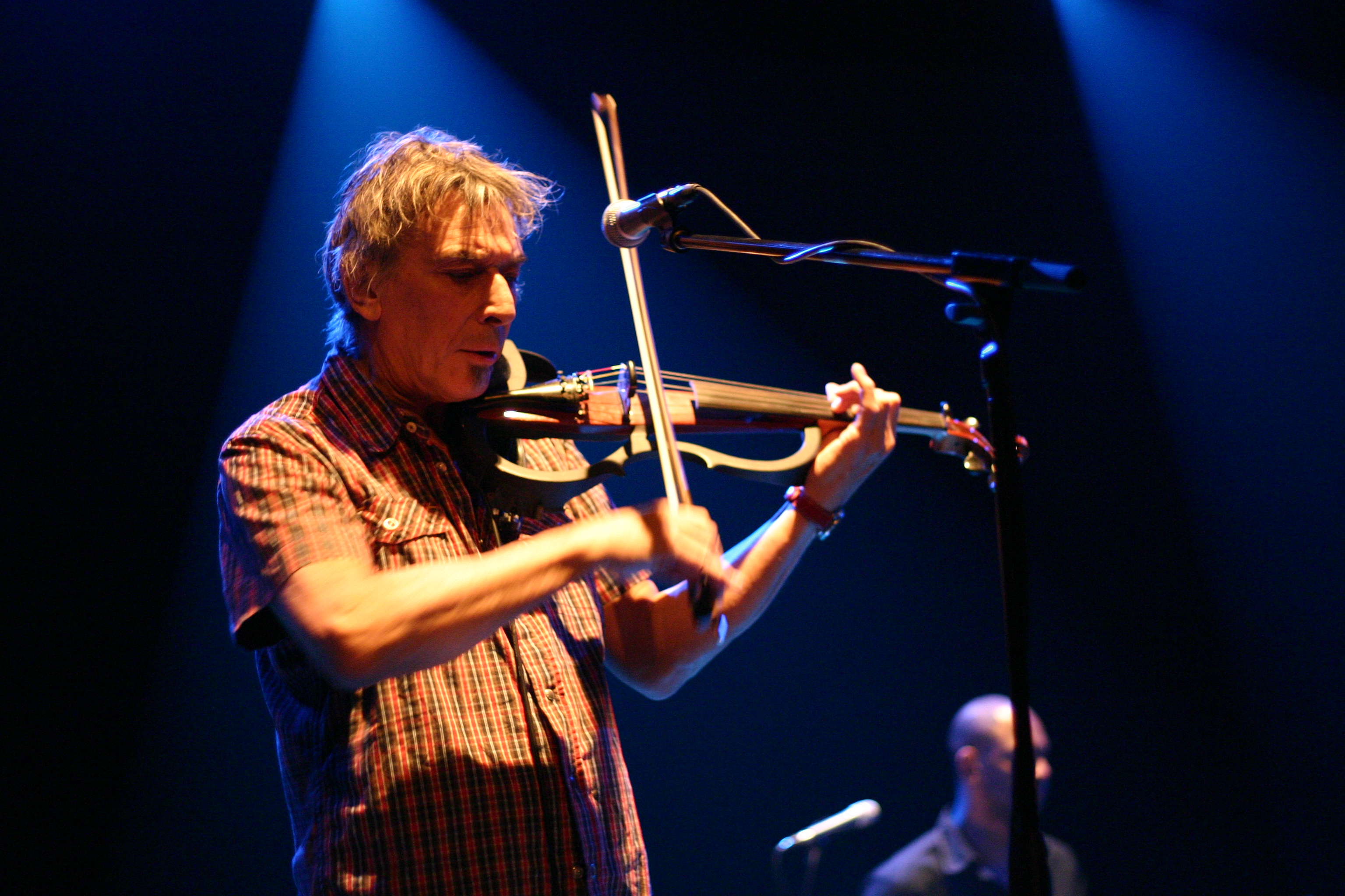 John Cale (with drummer Michael Jerome) at Archa Theatre in Prague, 9 March 2006